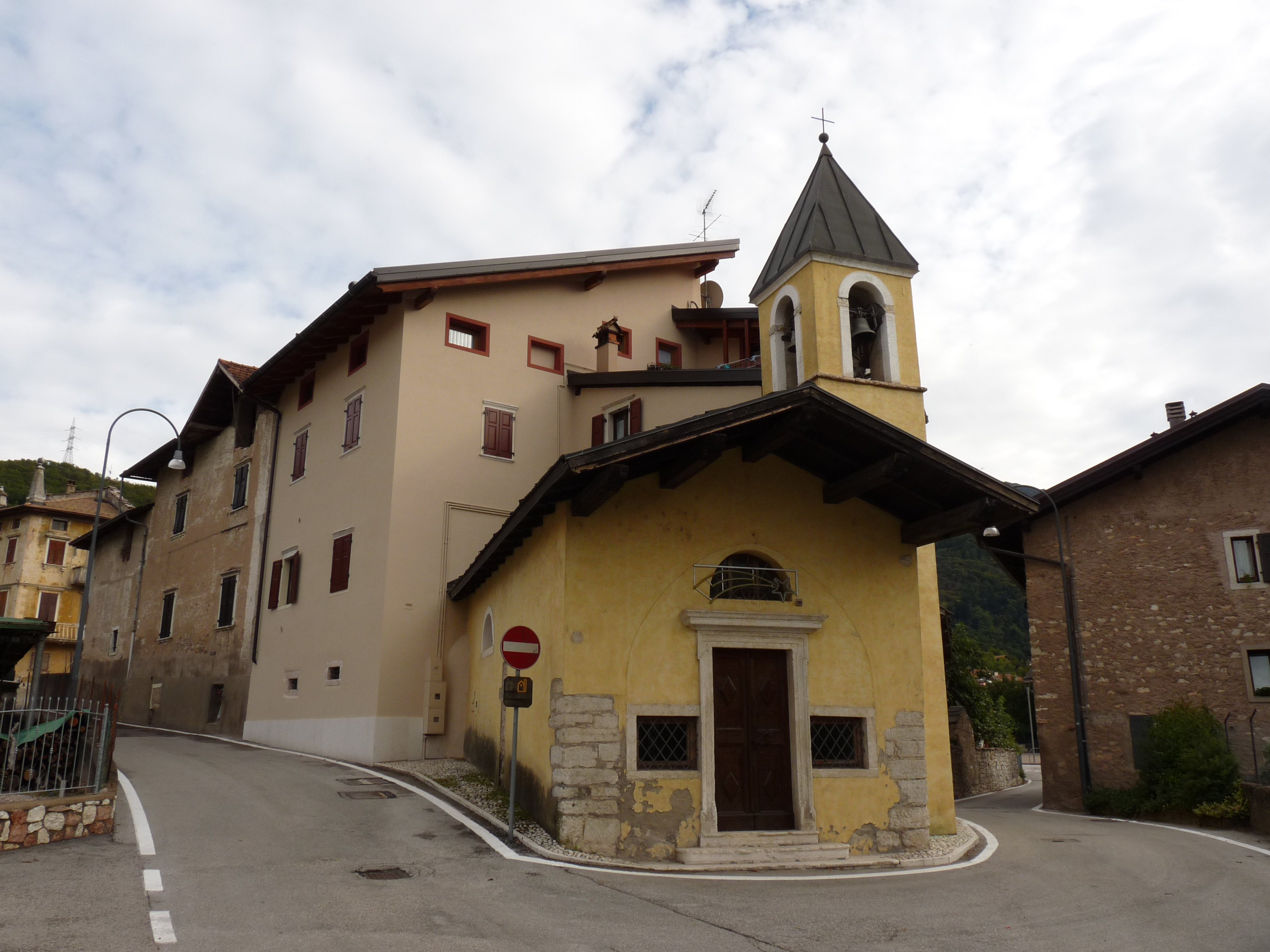 Trento (Italy): the church of San Pantaleone in Oltrecastello